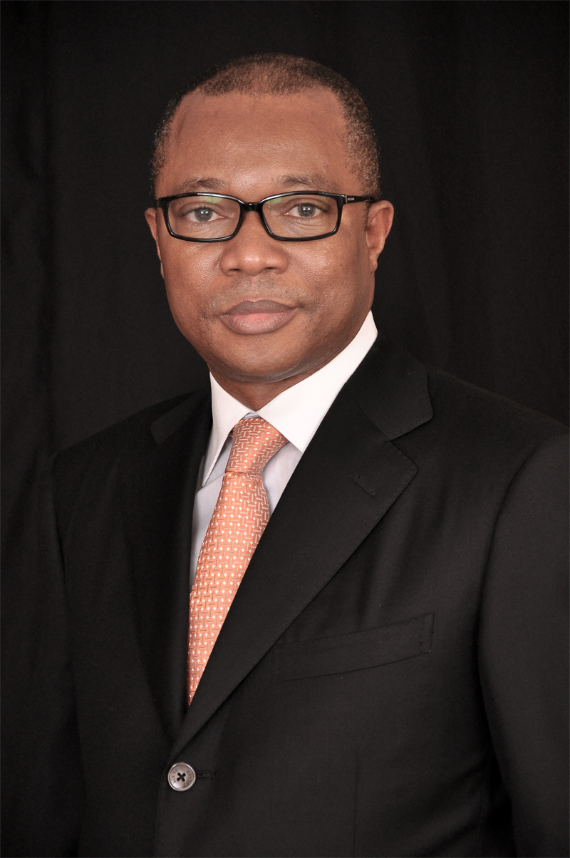 Profile Picture for Fola Adeola